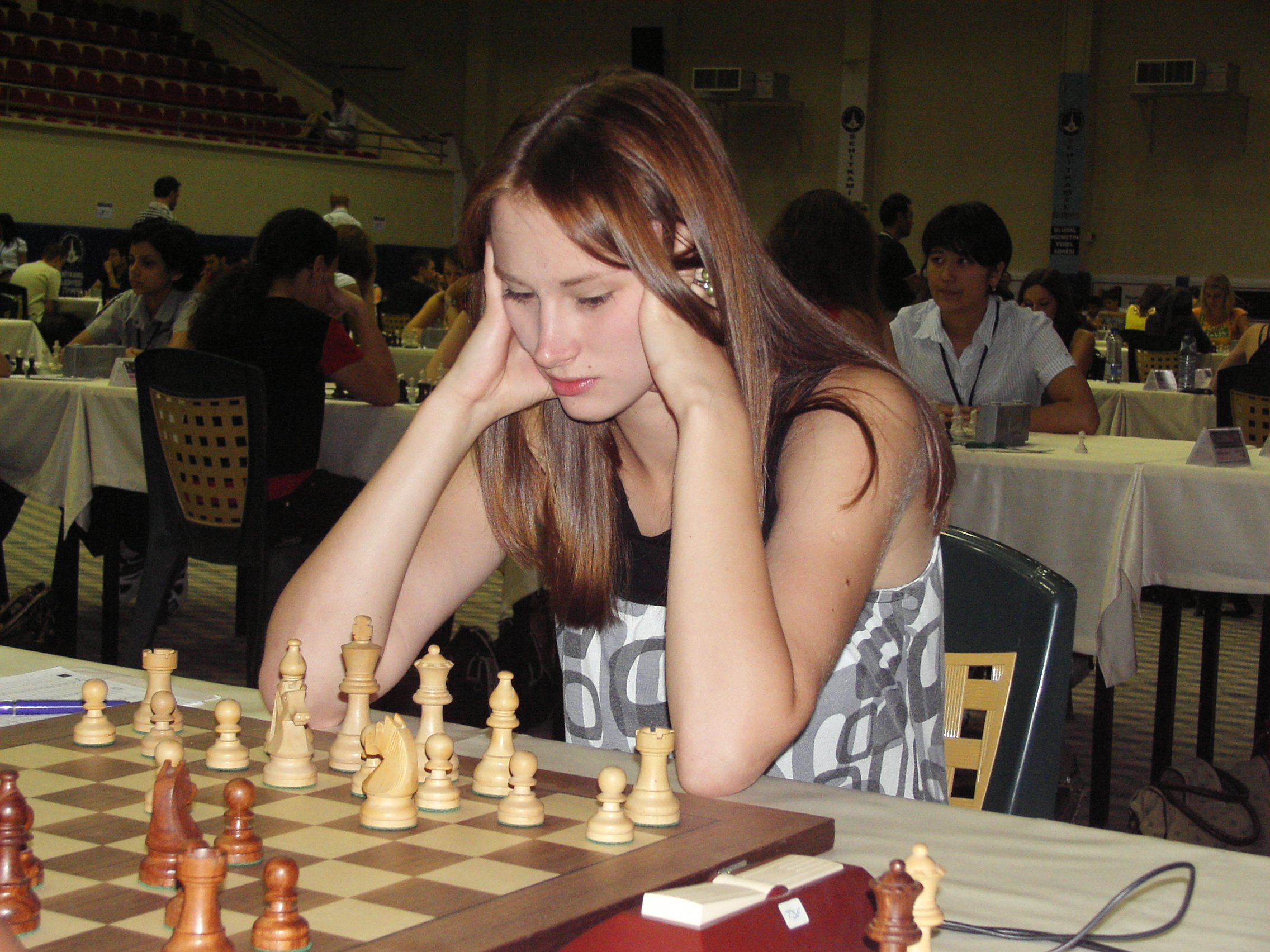 WFM Anna Gasik Poland at the 2008 World Junior Chess Championship in Gaziantep, Turkey.